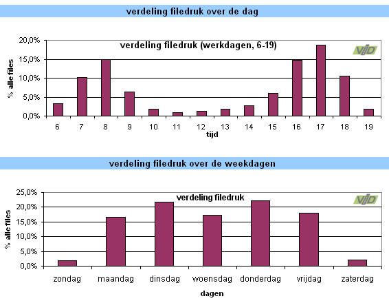 Distribution of congestion in 2007 in the Netherlands -- The charts show how total congestion in 2007 (more than 15 million kilometer-minutes) is distributed over the hours (of a working day) and the days of the week.